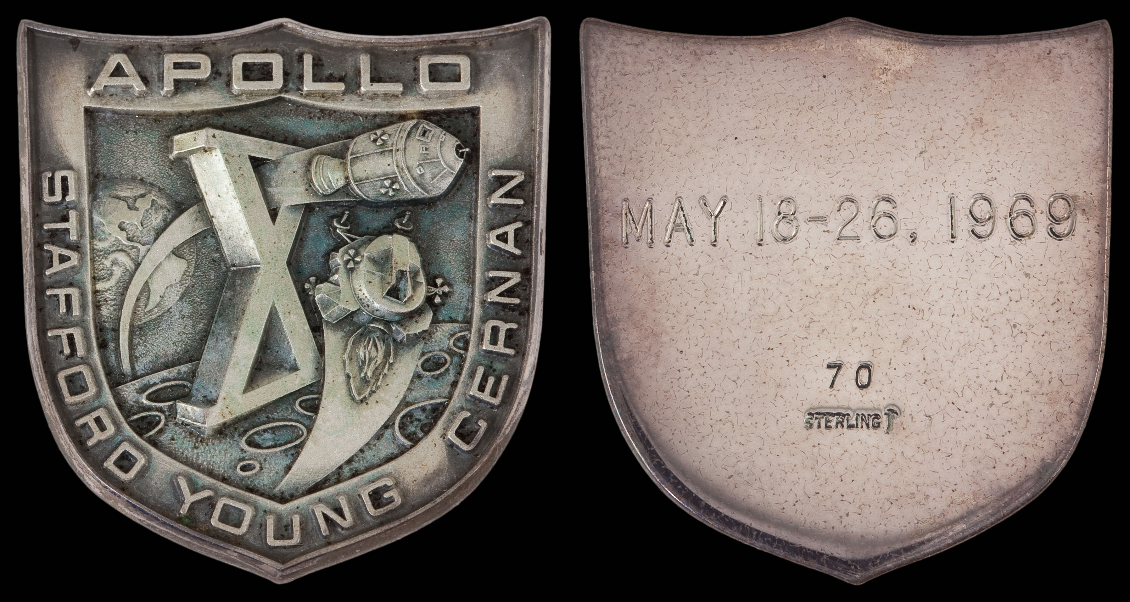 Apollo 10 (S69-31959, May 1969) Flown Silver Robbins Medallion (SN-70) from the collection of Rusty Schweickart(6075-40085)